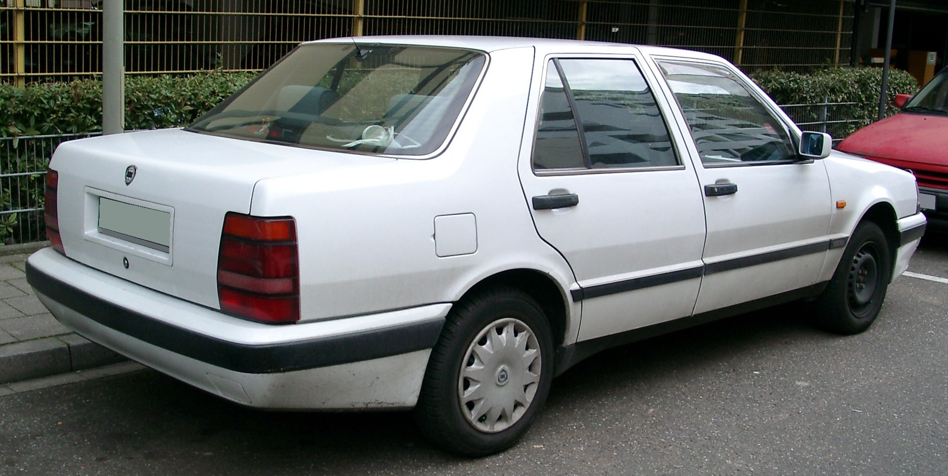 Lancia Thema